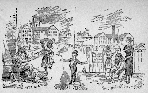 "Take your choice" A cartoon from Coin's Financial School (1894) Contrasts the prosperity of "Bimetalism - 1872" with the beggary of "Monometalism - 1894".